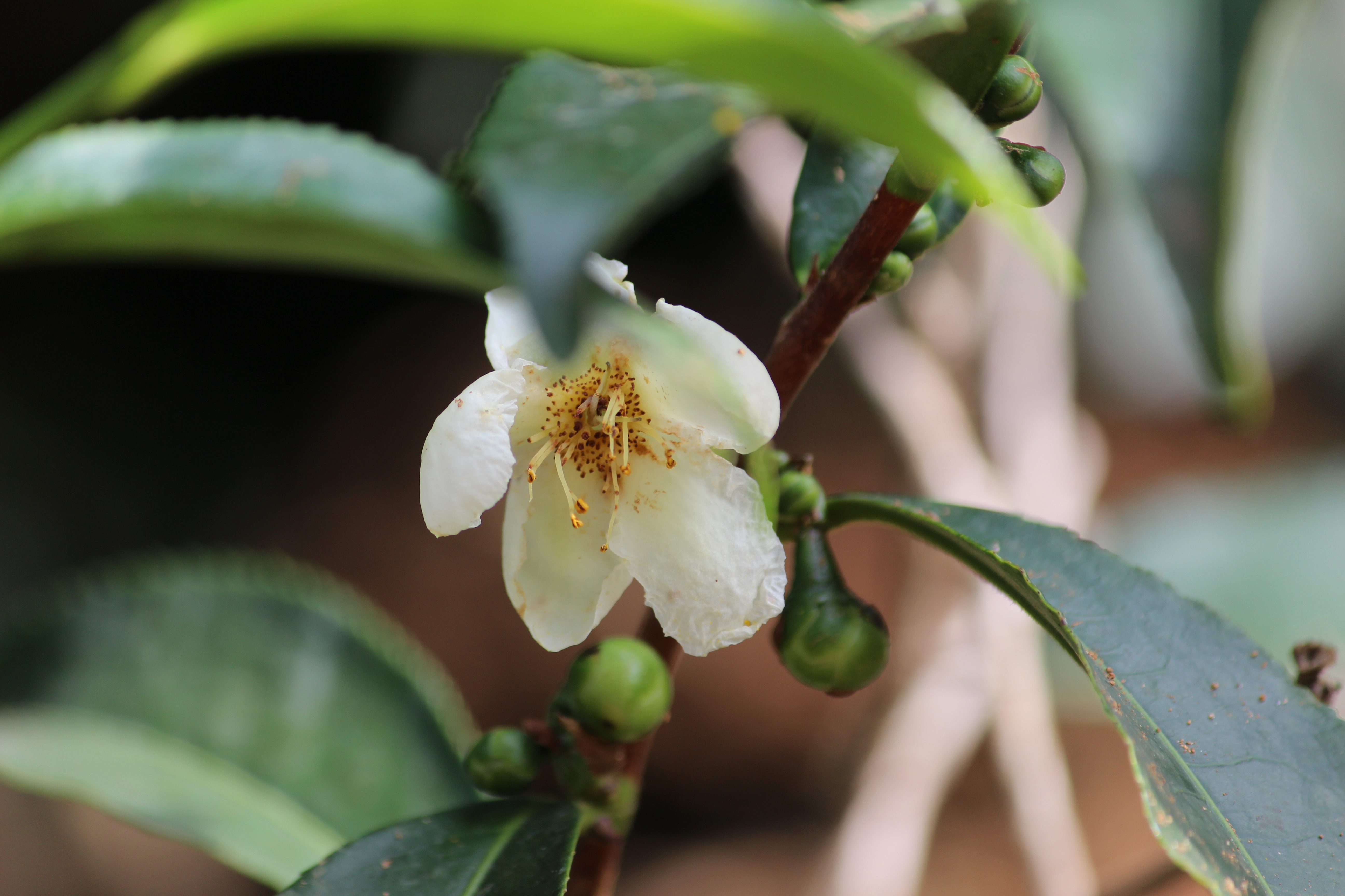 The flower of tea plant with buds.